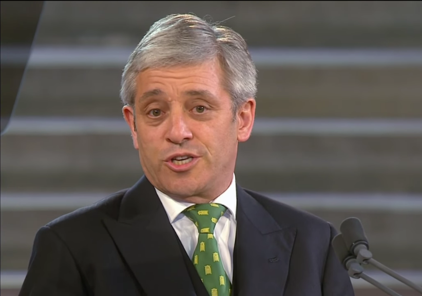 The Right Honourable John Bercow MP speaks to Westminster hall during the state visit of Barack Obama.